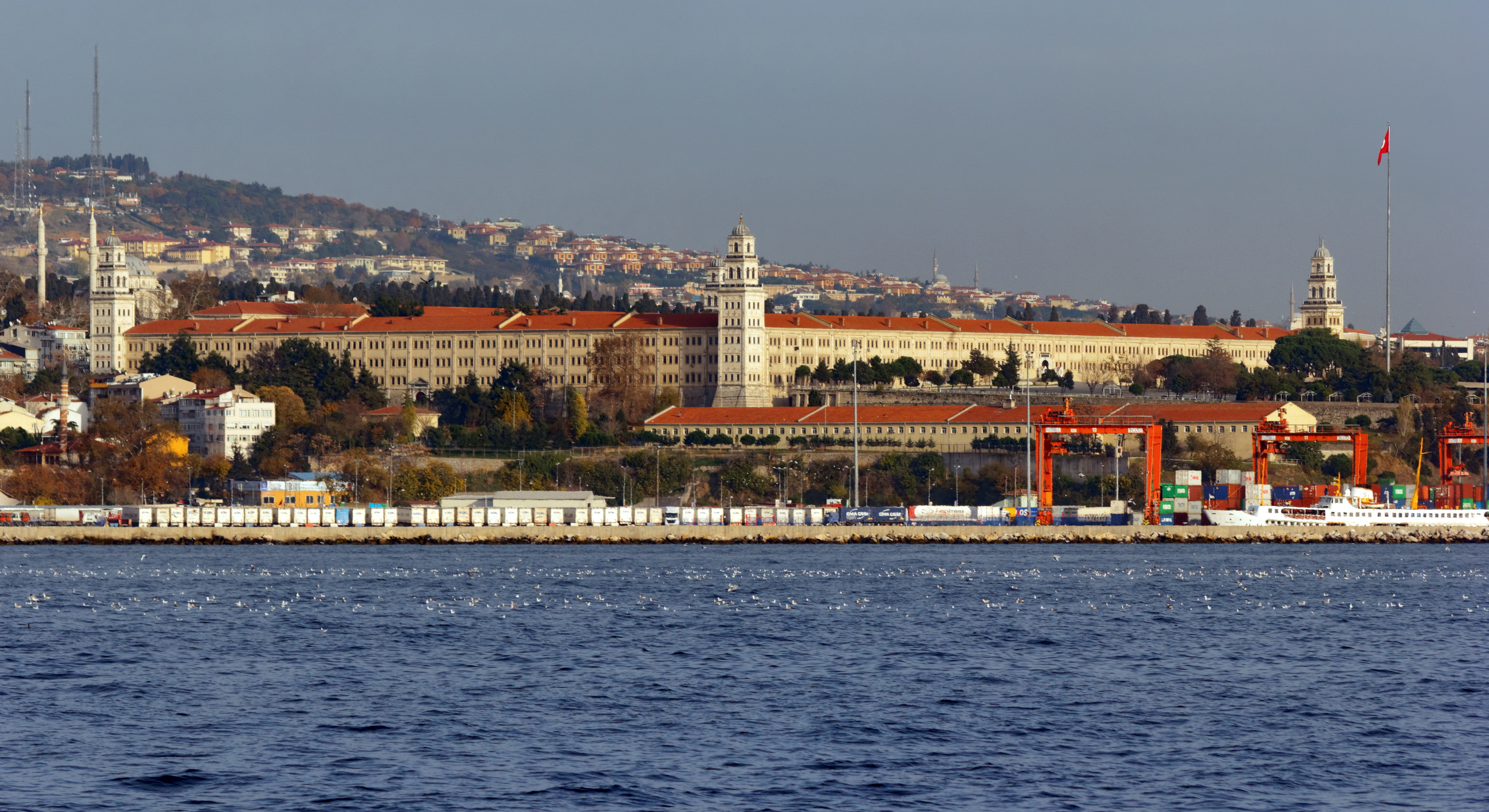 500px provided description: Istanbul. Bosphorus ???????. ?????? [#autumn ,#city ,#????? ,#istanbul ,#turkey ,#november ,#????? ,#?????? ,#bosphorus ,#strait ,#2013 ,#?????? ,#?????? ,#??????? ,#??????]